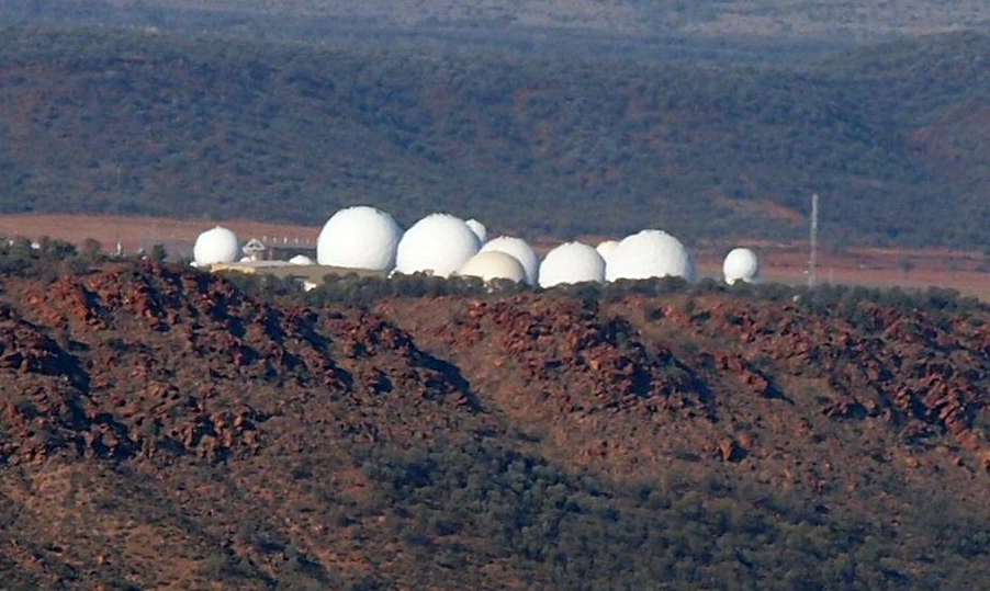 Pine Gap Defence Base, as viewed from Mount Gillen, Alice Springs